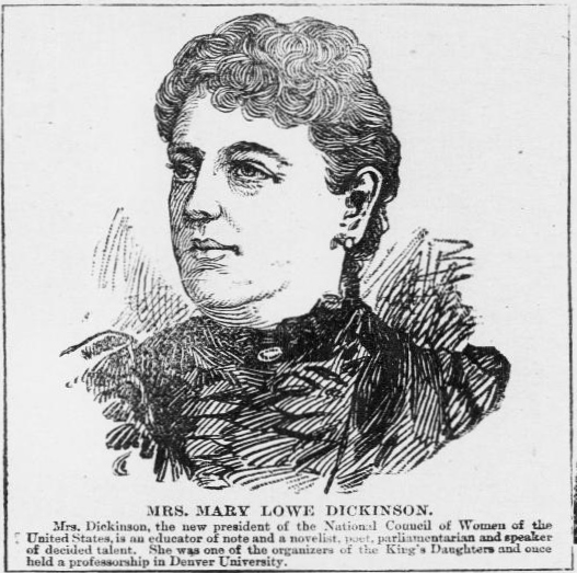 This portrait of Mary Lowe Dickinson appeared on p. 3 of Honolulu, Hawaii's "Pacific Commercial Advertiser" on April 18, 1895 (public domain, courtesy of the U.S. Library of Congress).